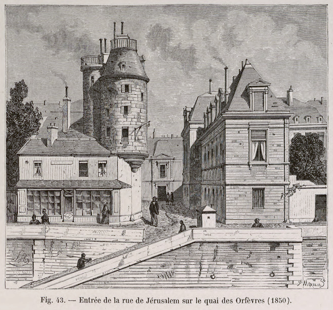 An entranceway that leads directly from the Seine (below) onto the quai d'Orfèvres and into the rue de Jérusalem. Such passageways from the river into city streets were quite numerous during the nineteenth century, and most still exist today.